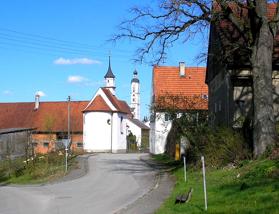 Gabelbach (Markt Zusmarshausen, Landkreis Augsburg, Bavaria, Germany). Chapel of St. Anna and the tower of the parish church St. Martin